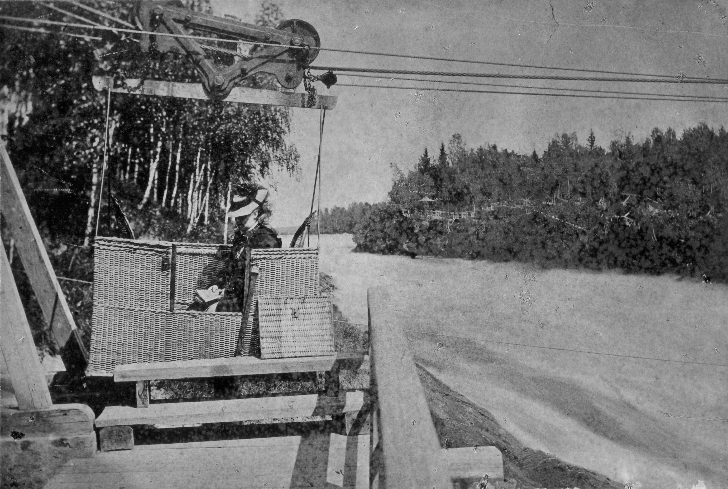 Cableway over Imatrankoski, Finland